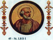 Portrait of Pope Leo I in the Basilica of Saint Paul Outside the Walls, Rome